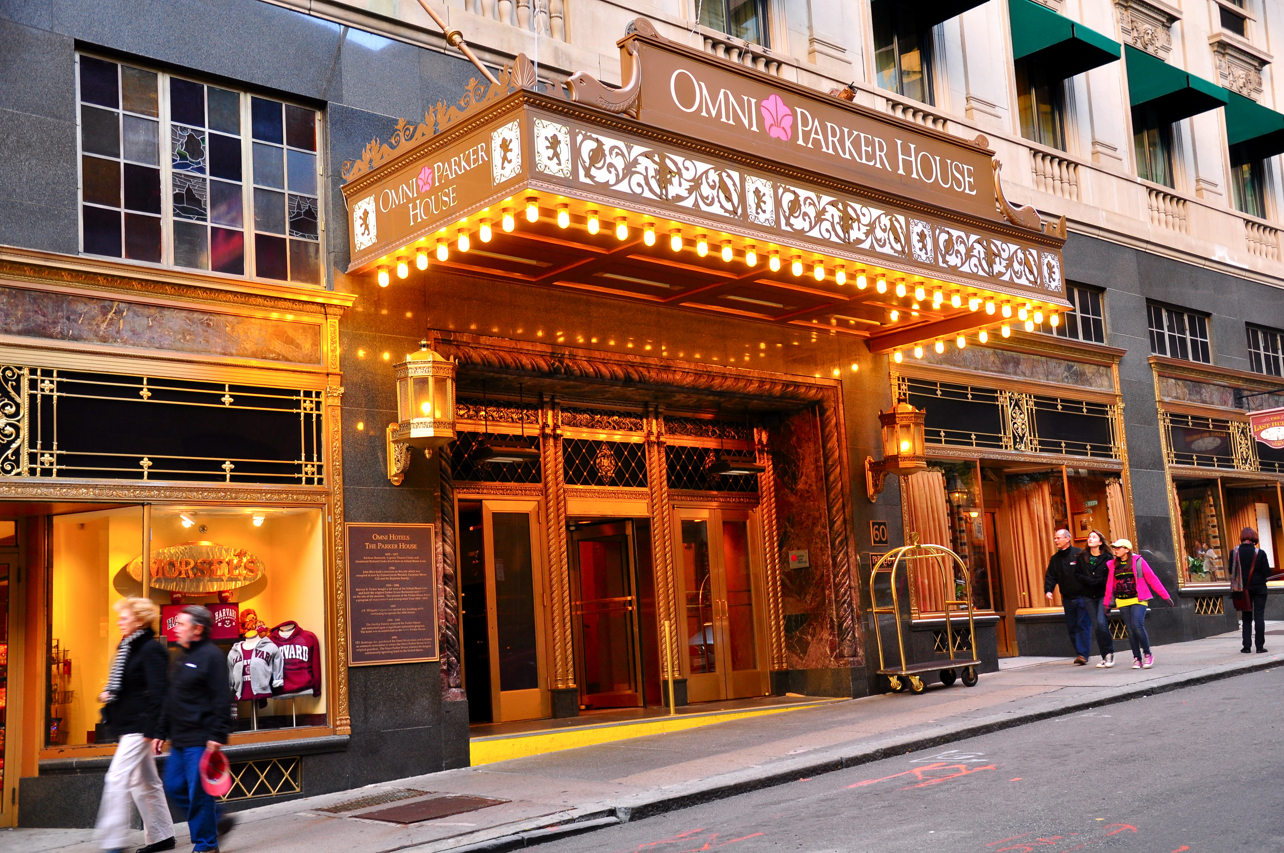 birthplace of Parker House Rolls and Boston Creme Pie